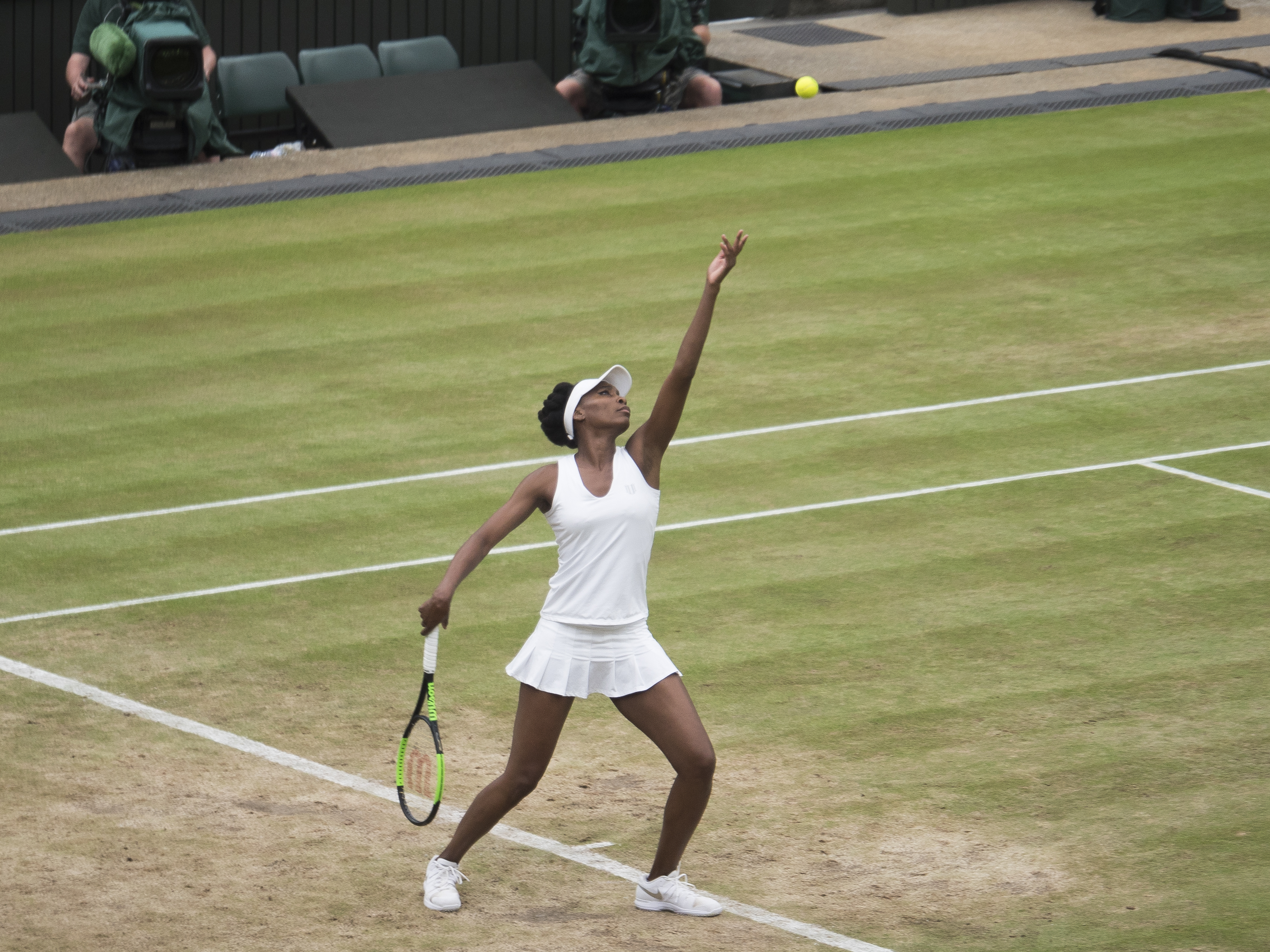 Wimbledon 2017